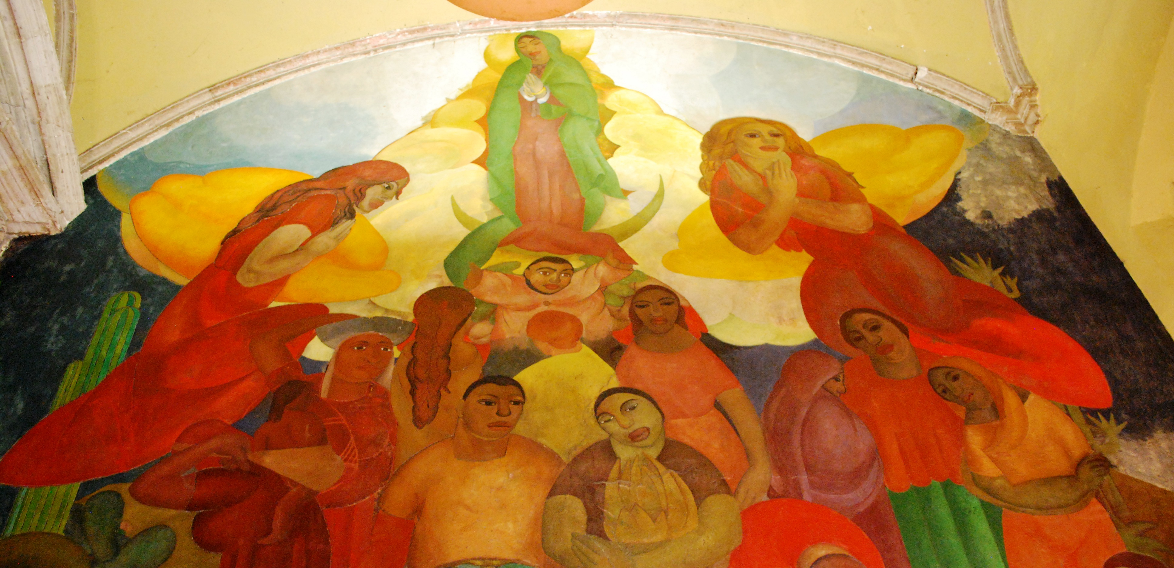 A portion of "Alegoría a la Virgen de Guadalupe" by Fermin Revueltas located in one of the walls of the San Ildefonso College in the historic center of Mexico City.